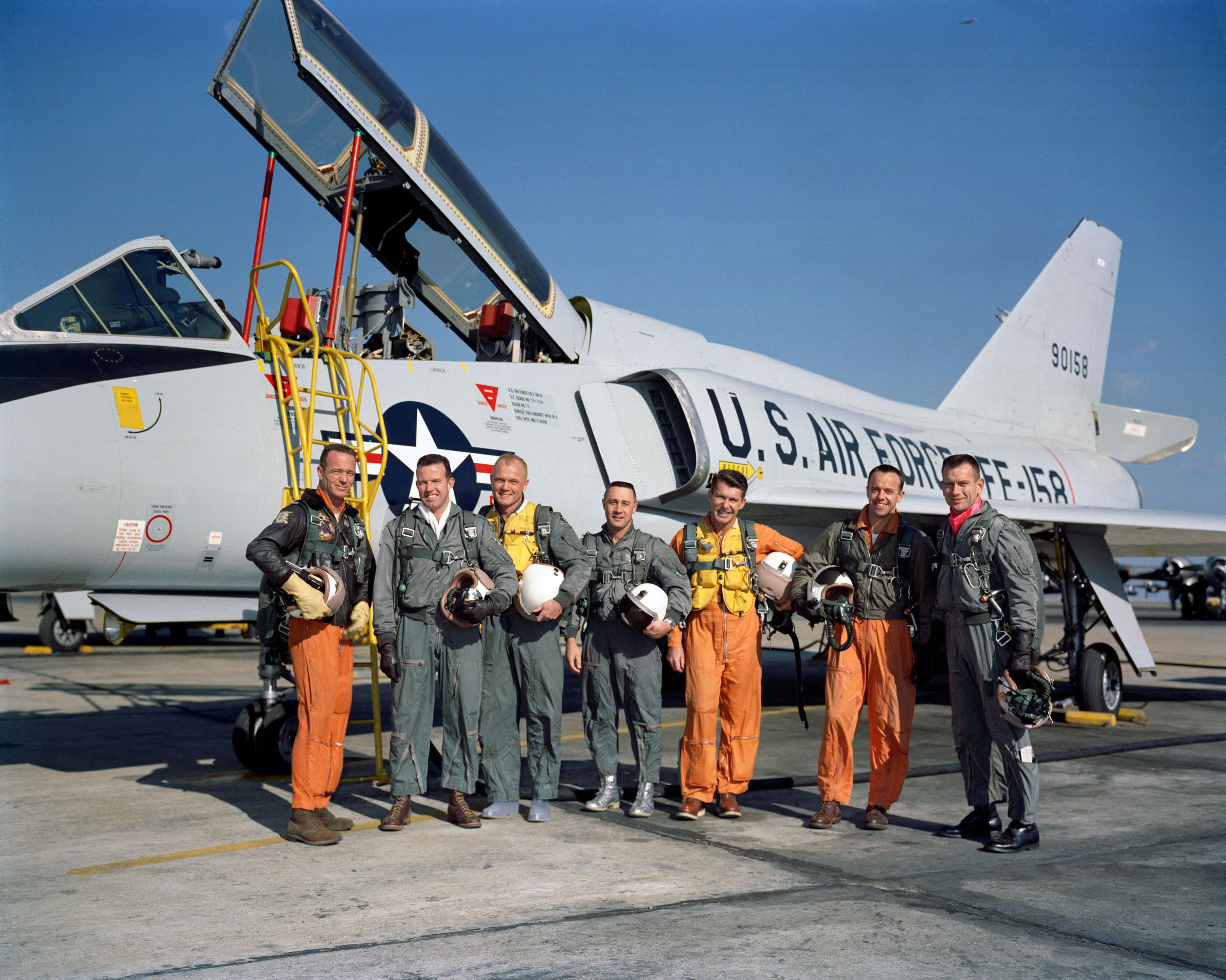 The Mercury Seven astronauts with a NASA Langley Research Center Convair F-106B Delta Dart aircraft at Langley Air Force Base. From left to right: Scott Carpenter, Gordon Cooper, John Glenn, Gus Grissom, Wally Schirra, Alan Shepard and Deke Slayton.